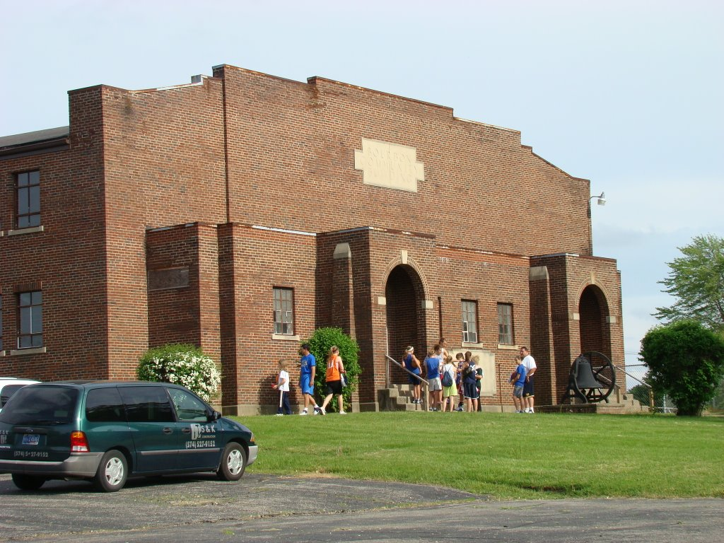 The Bourbon Community Building-Gymnasium is used for entertainment, recreation, banquets, as well as other community functions associated with the school.